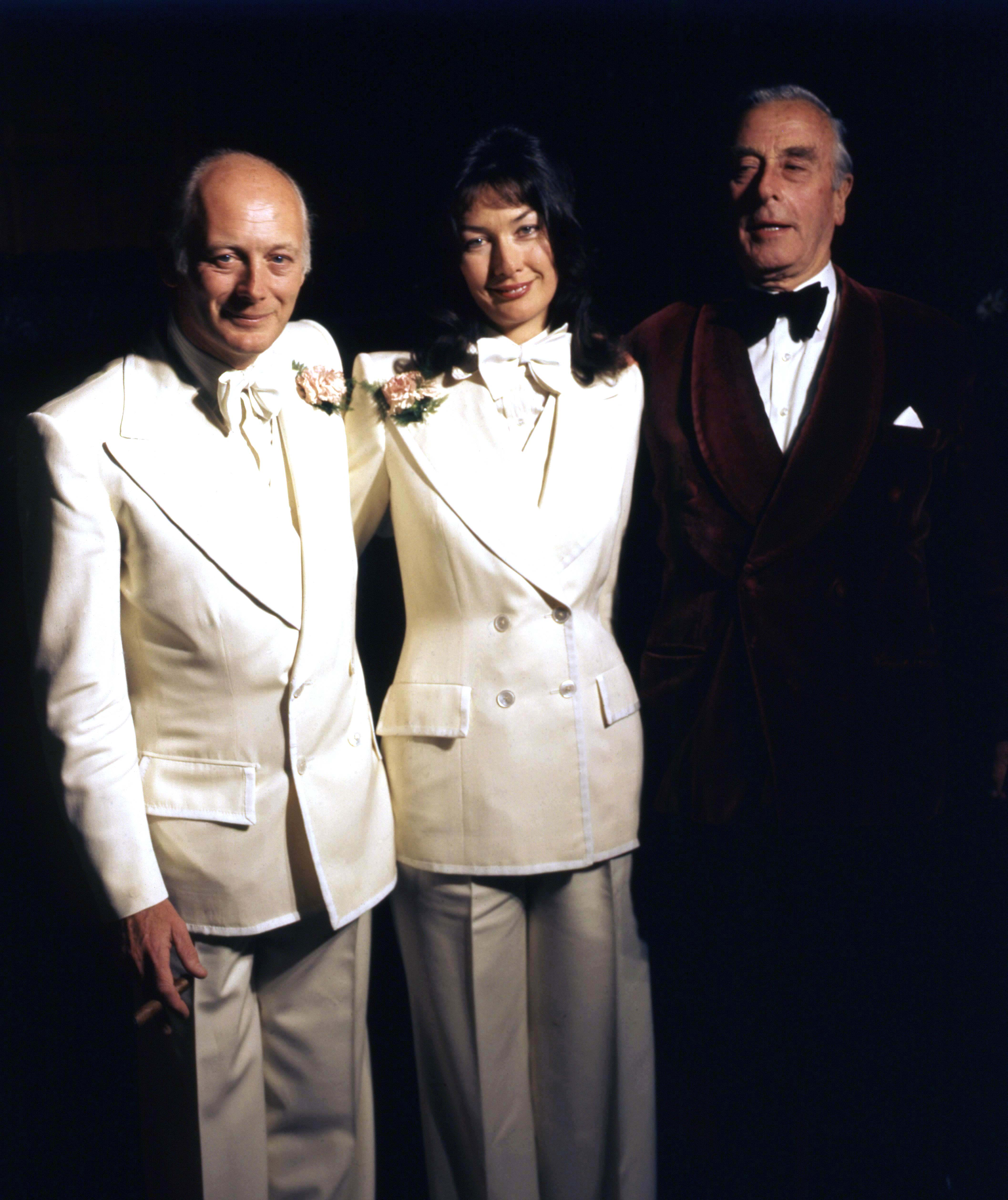 Lord & Lady Montagu with Lord Mountbatten of Burma